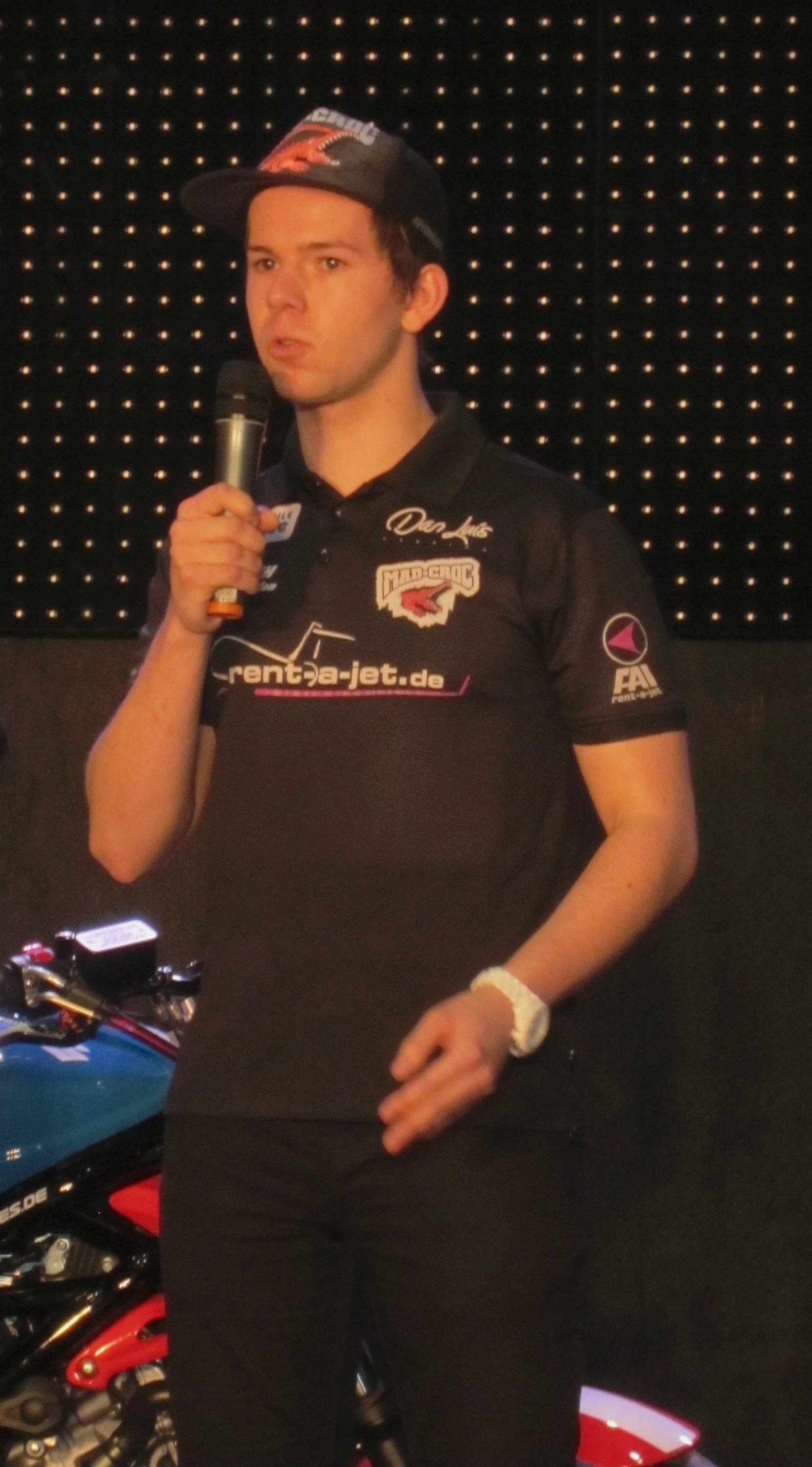 German season 2014 Moto3 rider Kevin Hanus beeing interviewed at the Motorradmesse Leipzig. Leipzig, Saxony, Germany.